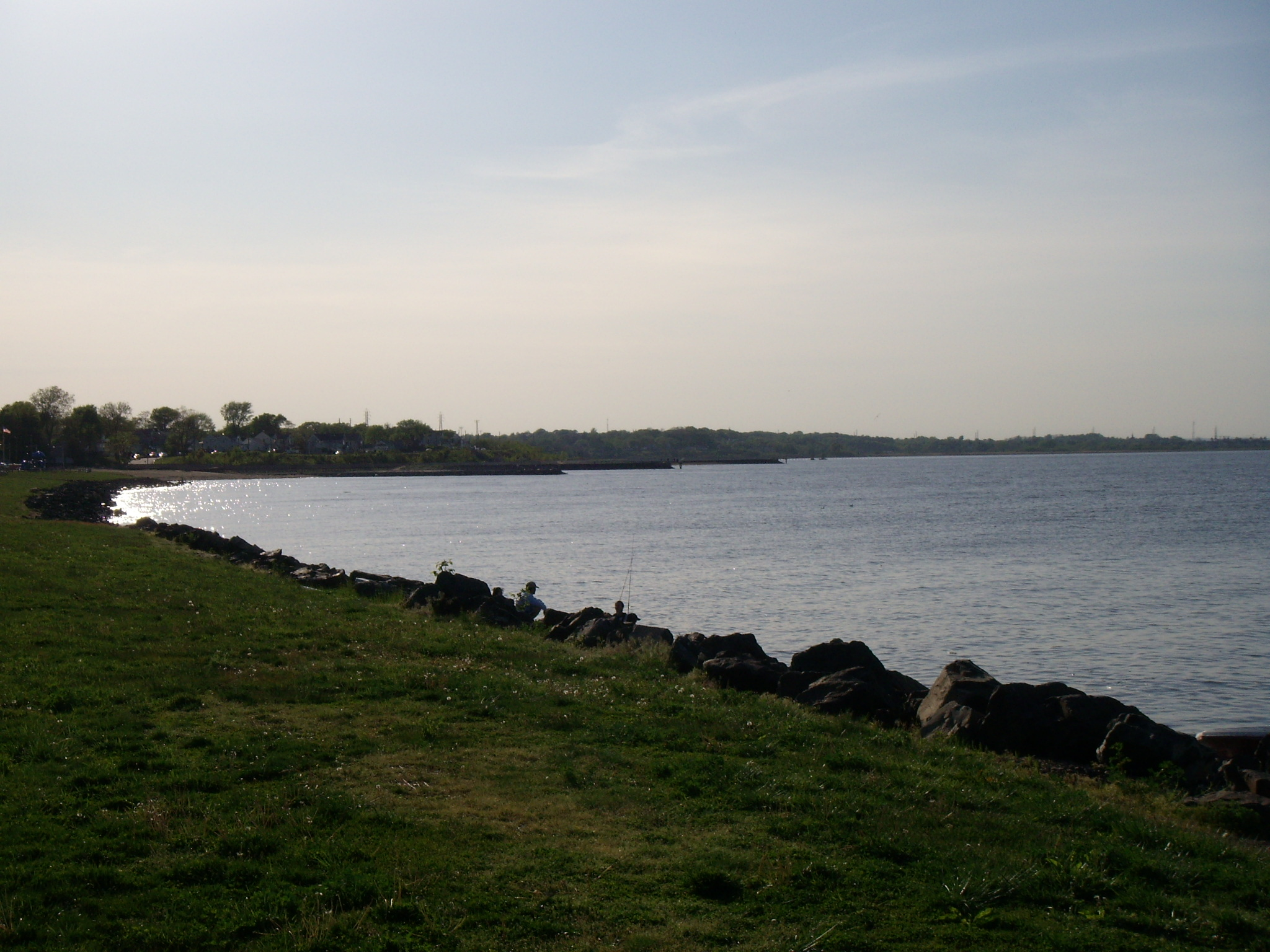 Photograph of Laurence Harbor shoreline at Laurence Harbor Waterfront Park, taken by Pat Noble in May 2007.